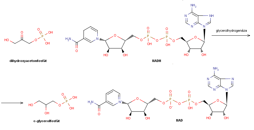 Scheme of creation of glycerol by enzymatic reduction of dihydroxyaceton with Czech description.